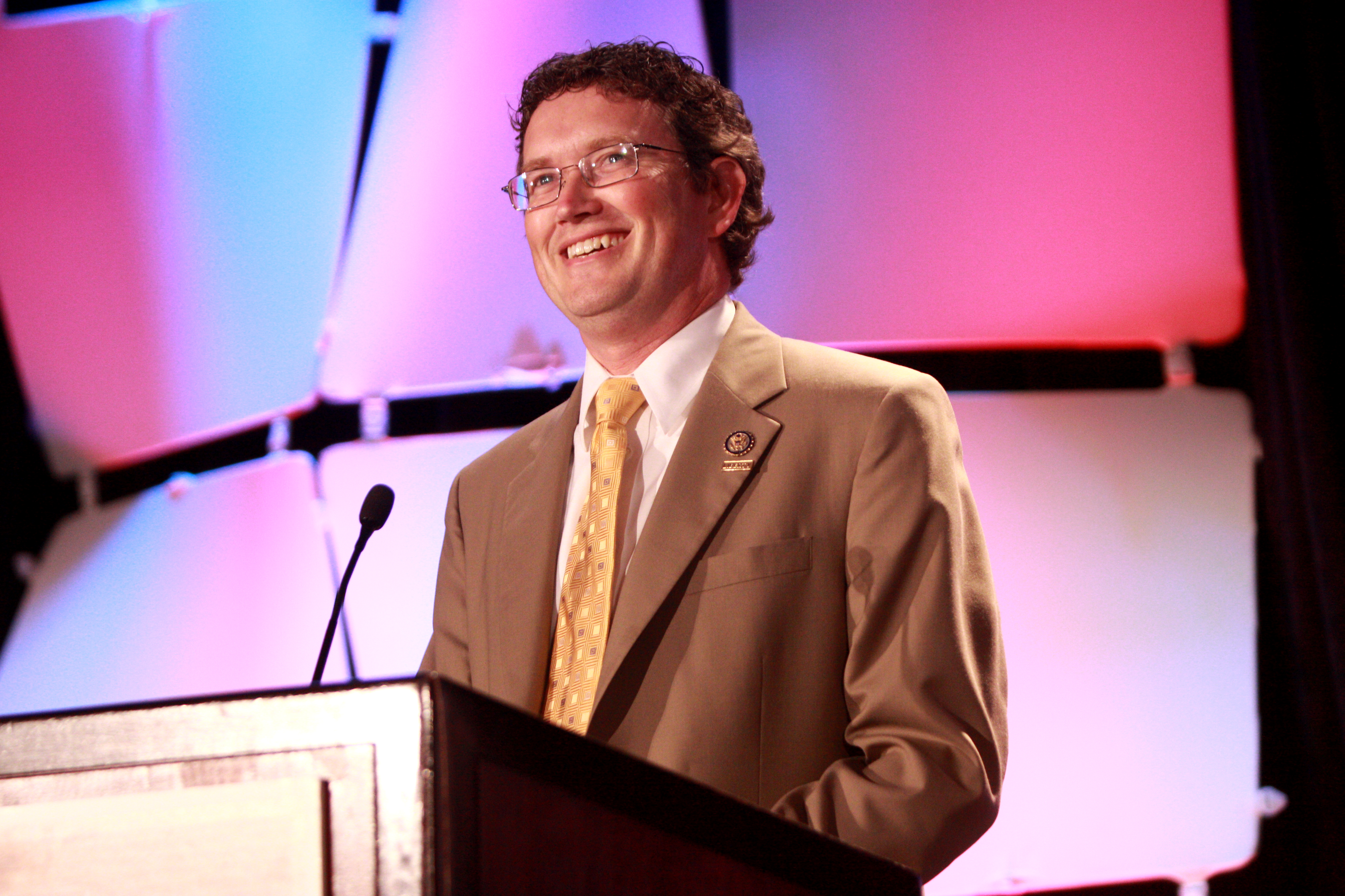 Congressman Thomas Massie speaking at the 2013 Liberty Political Action Conference (LPAC) in Chantilly, Virginia.